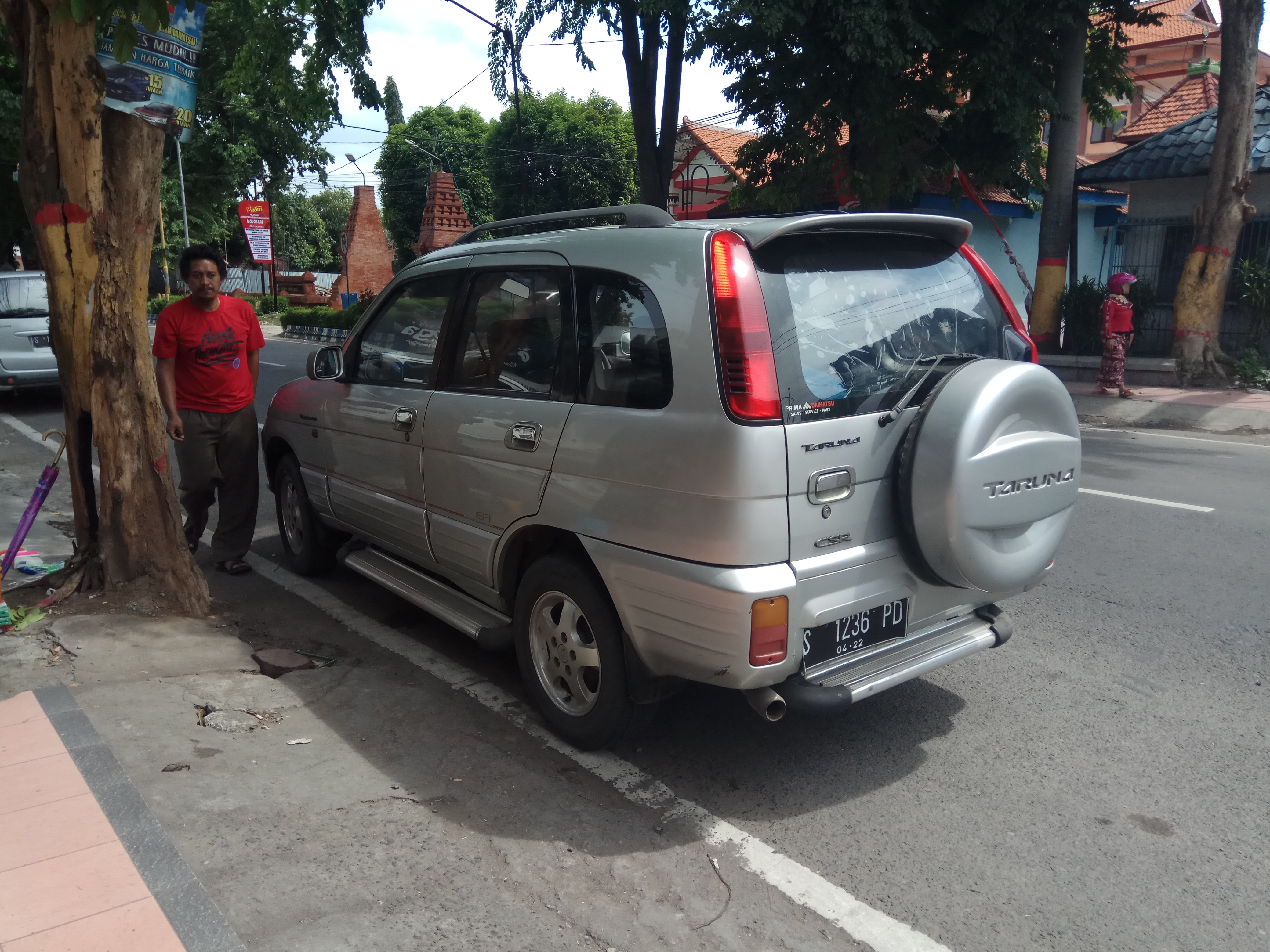 2001 Daihatsu Taruna CSR photographed in Mojokerto, East Java, Indonesia.